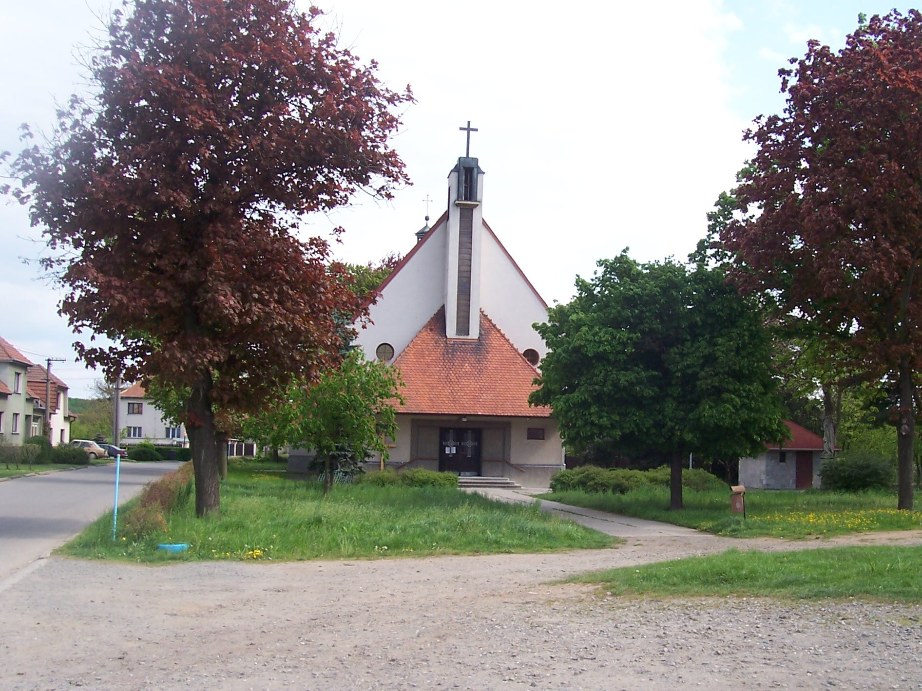 Nedakonice in Uherské Hradiště District, Czech Republic. St.-Forian-church.